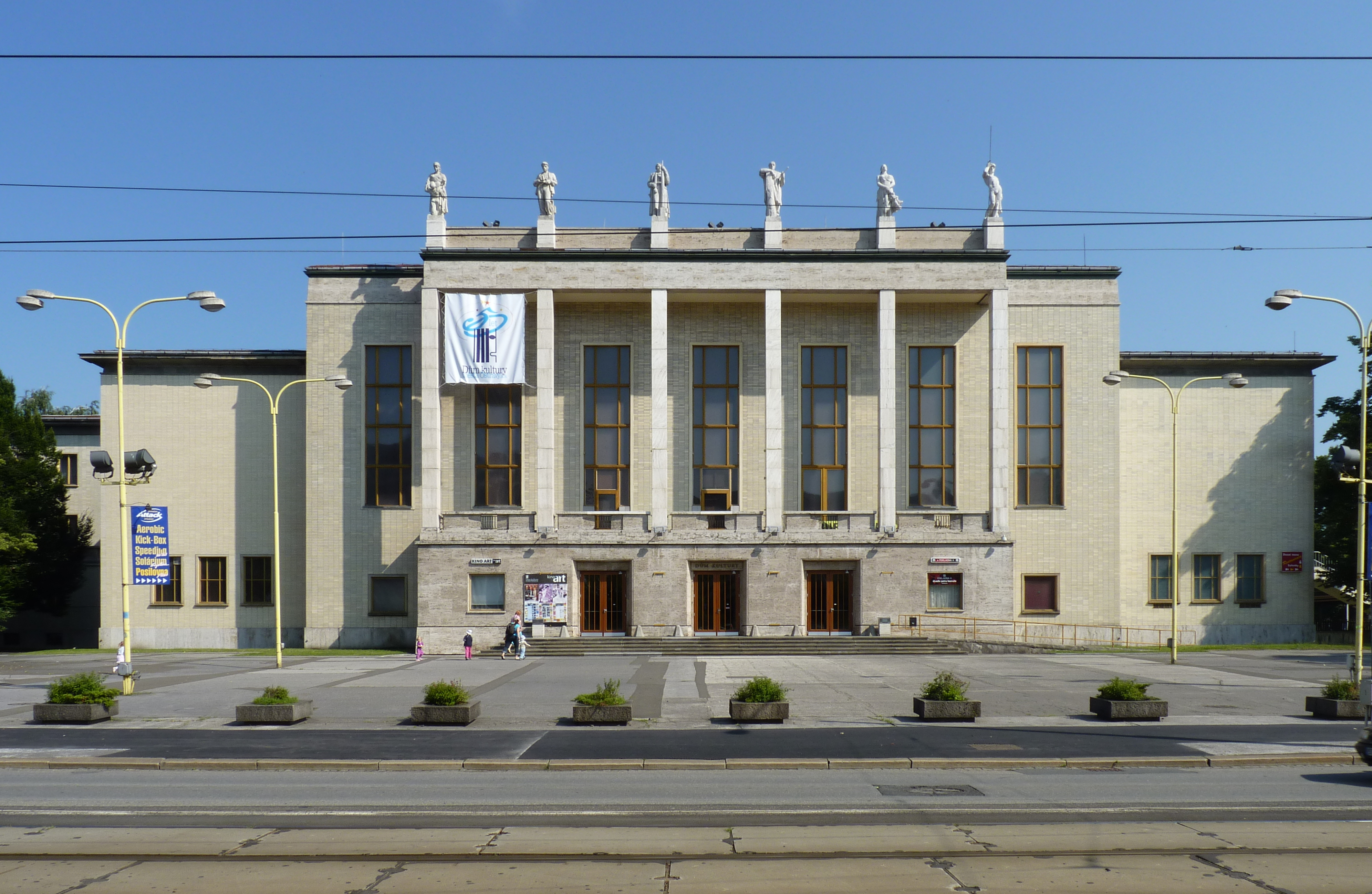 Moravská Ostrava a Přívoz. Ostrava-city District, Moravian-Silesian Region, Czech Republic